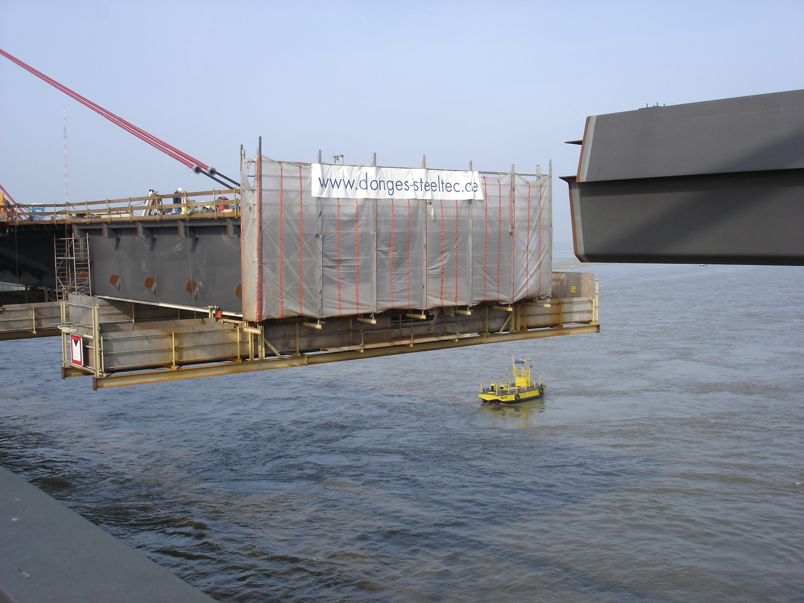 Construction of the new suspension bridge over the rhine in Wesel